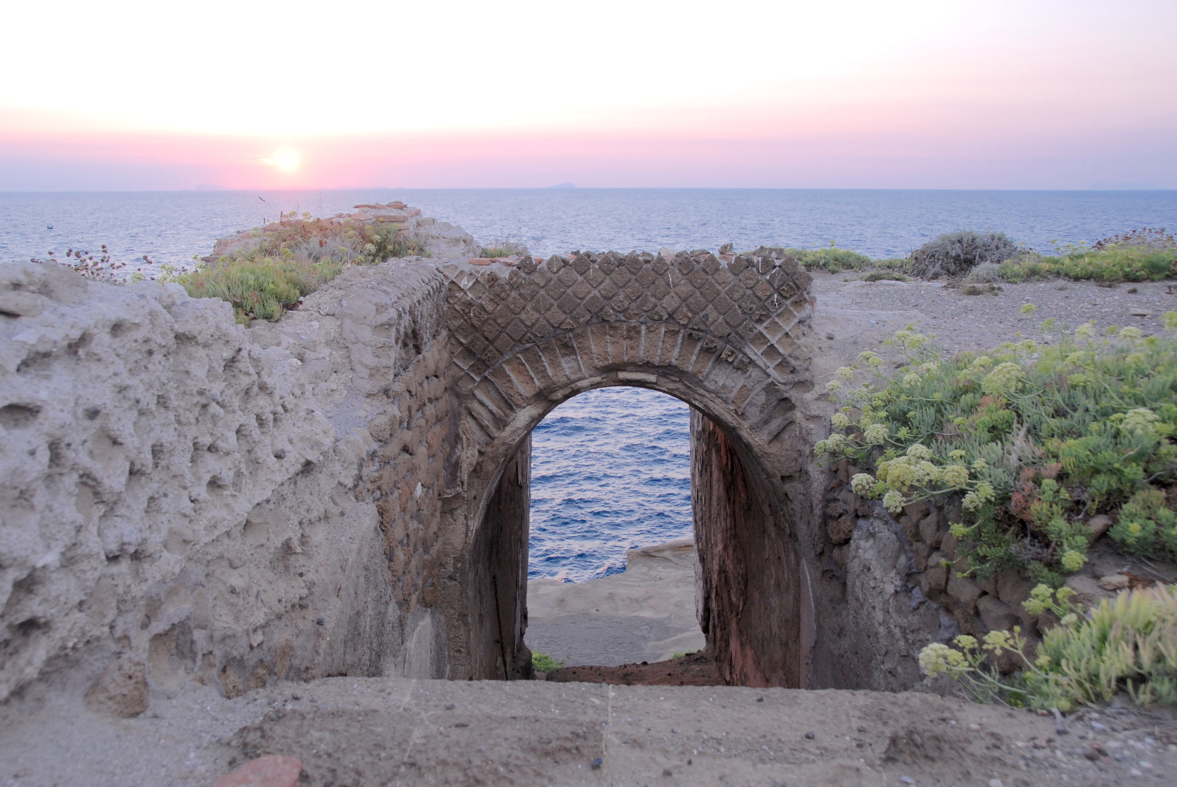 Detail from the ruins of Villa Giulia, Emperor Augustus' imperial summer residence on the island of Ventotene, Italy, built around 60BC.